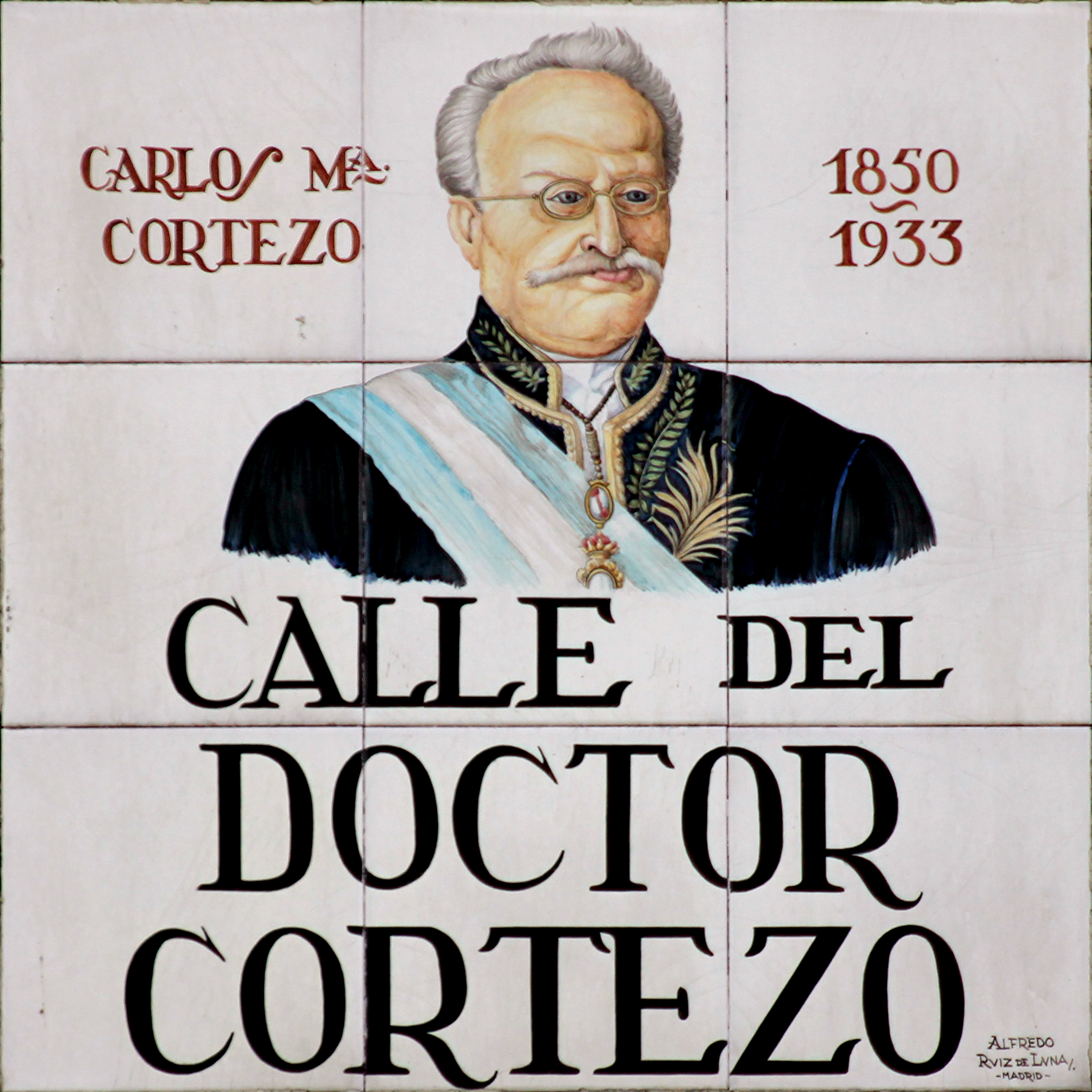 Sign of Calle del Doctor Cortezo (street) in Madrid (Spain).